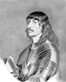 James 7th Earl of Derby (1627-1651), lord of Mann